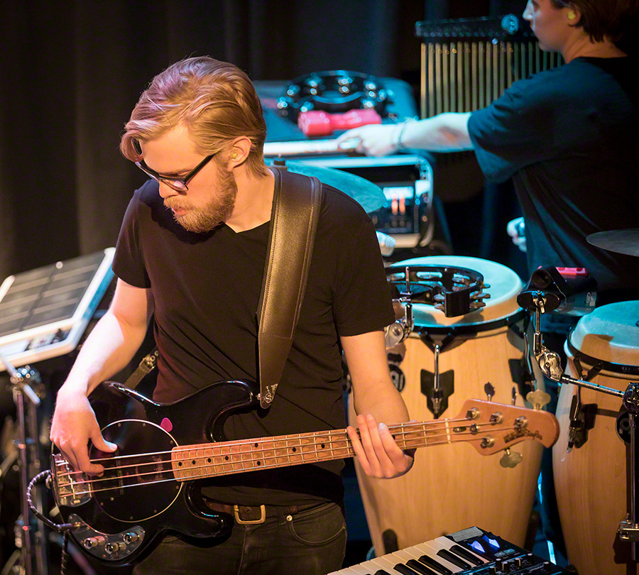 Axel Toreg Reite performs with Pymlico at the Belleville stage of Cosmopolite. The concert took place on 15. October 2016 in Oslo. This marked the release of their forth album, "Meeting Point".Lineup:Stephan Hvinden (guitar)Axel Toreg Reite (bass)Øyvind Brøter (keyboard)Marie Færevaag (saxophone)Arild Brøter (drums)Oda Rydning (percussion)